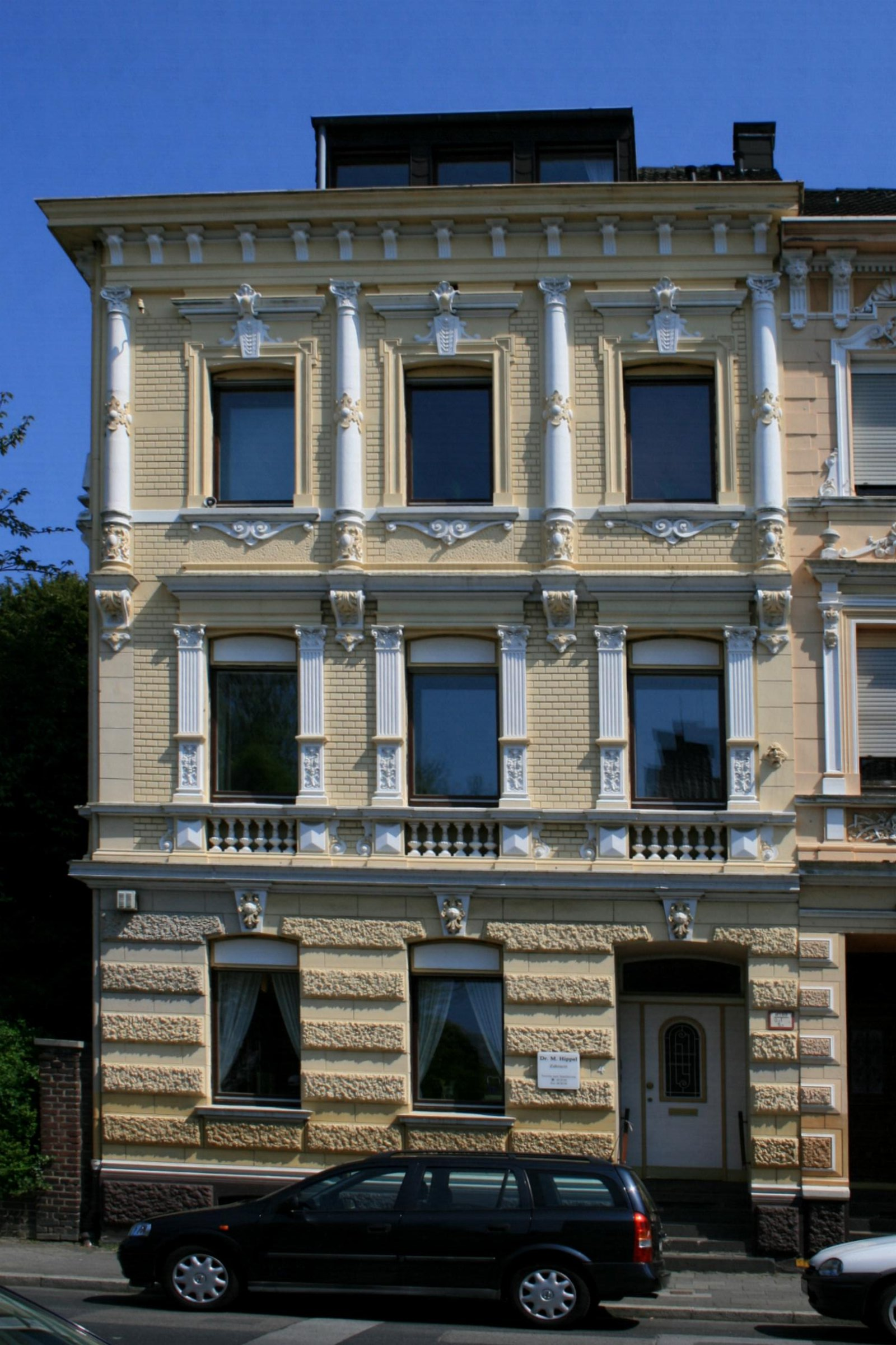 Cultural heritage monument No. B 061 in Mönchengladbach